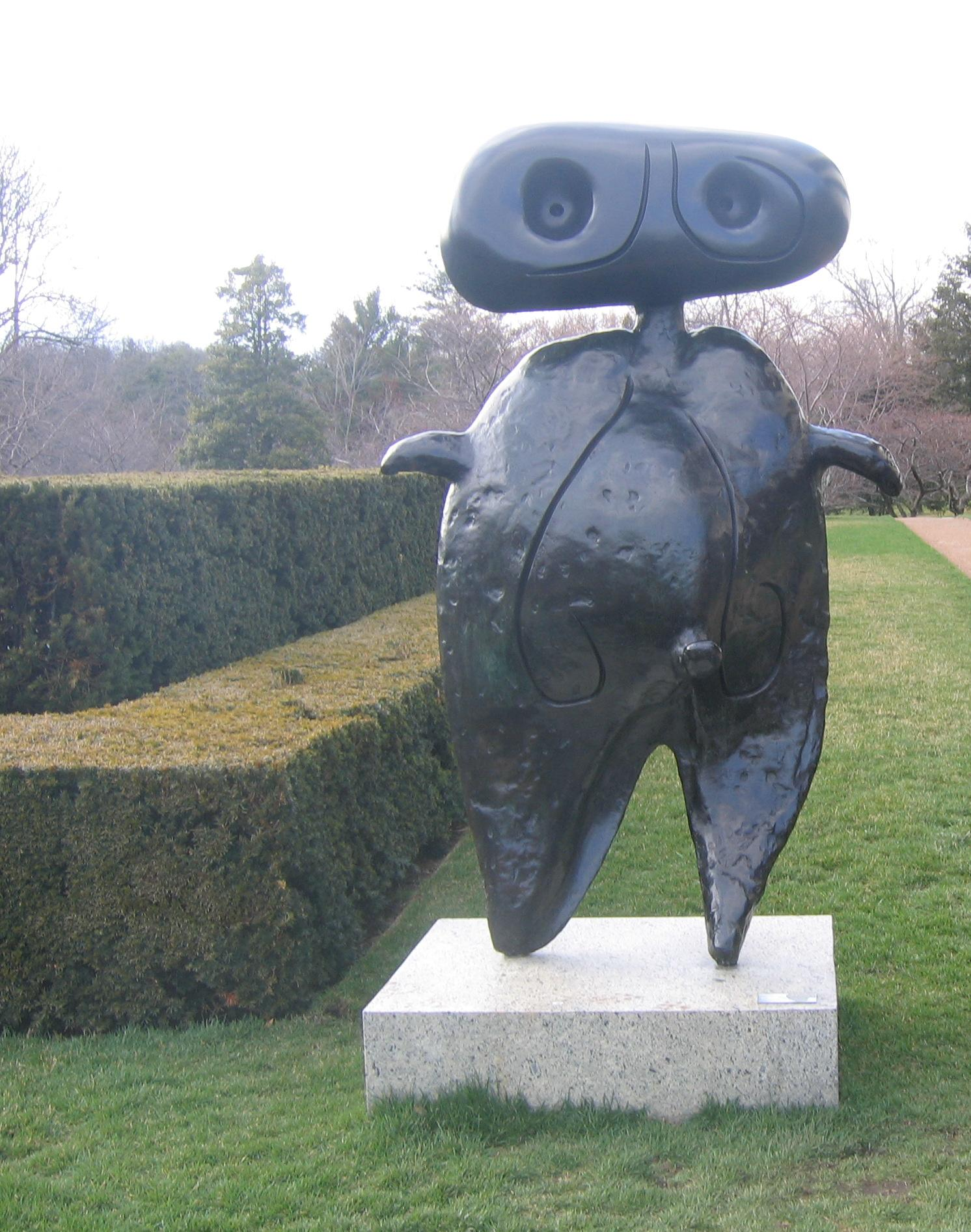 Personnage by Juan Miro, Donald m. Kendall sculpture garden near Pepsico world headquarters, Purchase, New-York, USA